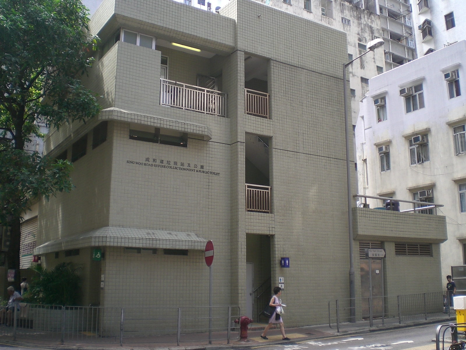 跑馬地成和道黃泥涌市政大廈近zh:景光街